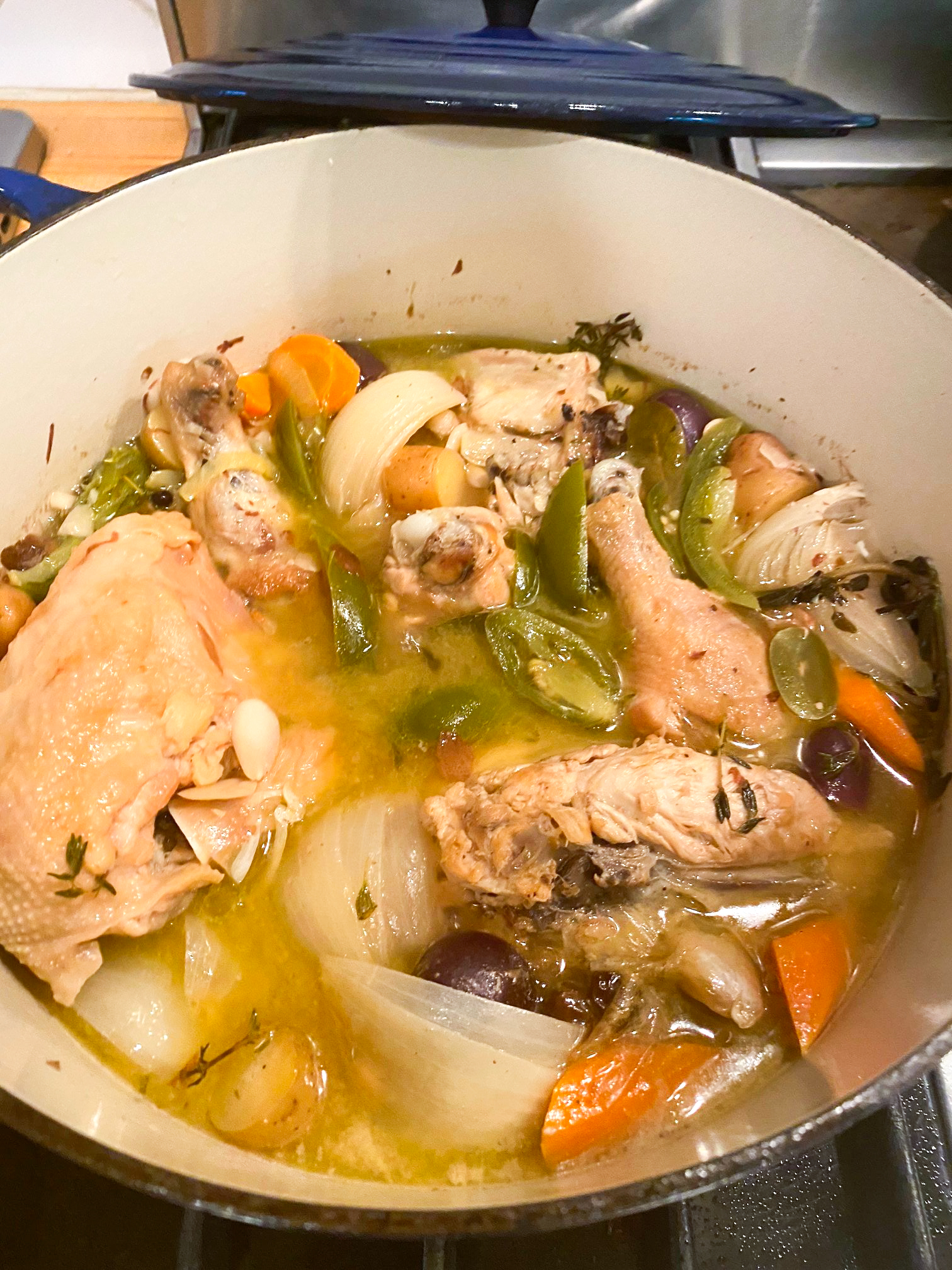 Preparando olla de pollo en cuñete.